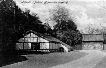 Proban, the former prison for pupils at the gymnasium of Västerås, Sweden.